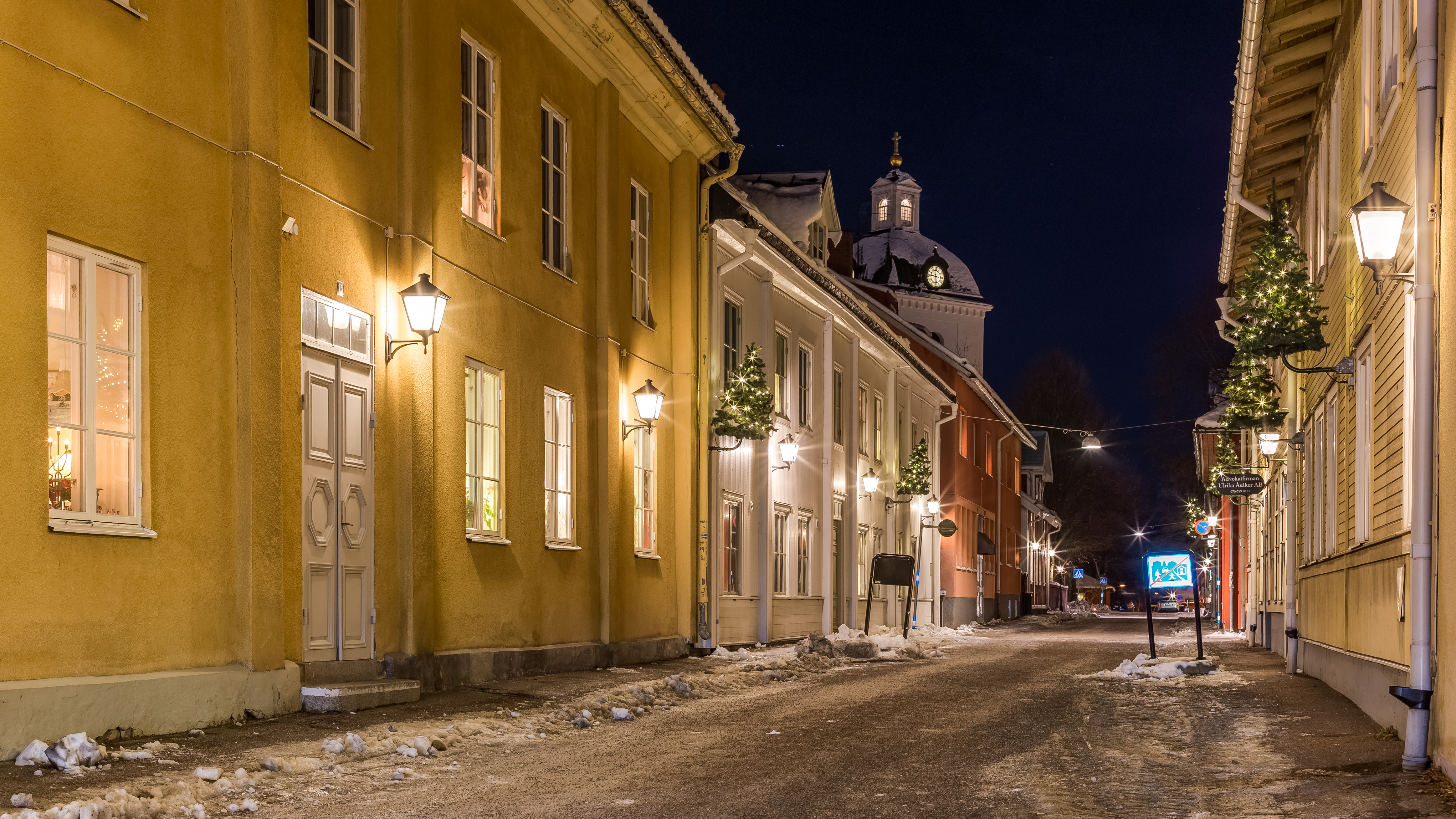 Street Storgatan ('Main street'), Säter, Dalarna County, Sweden. Säter's church in background.